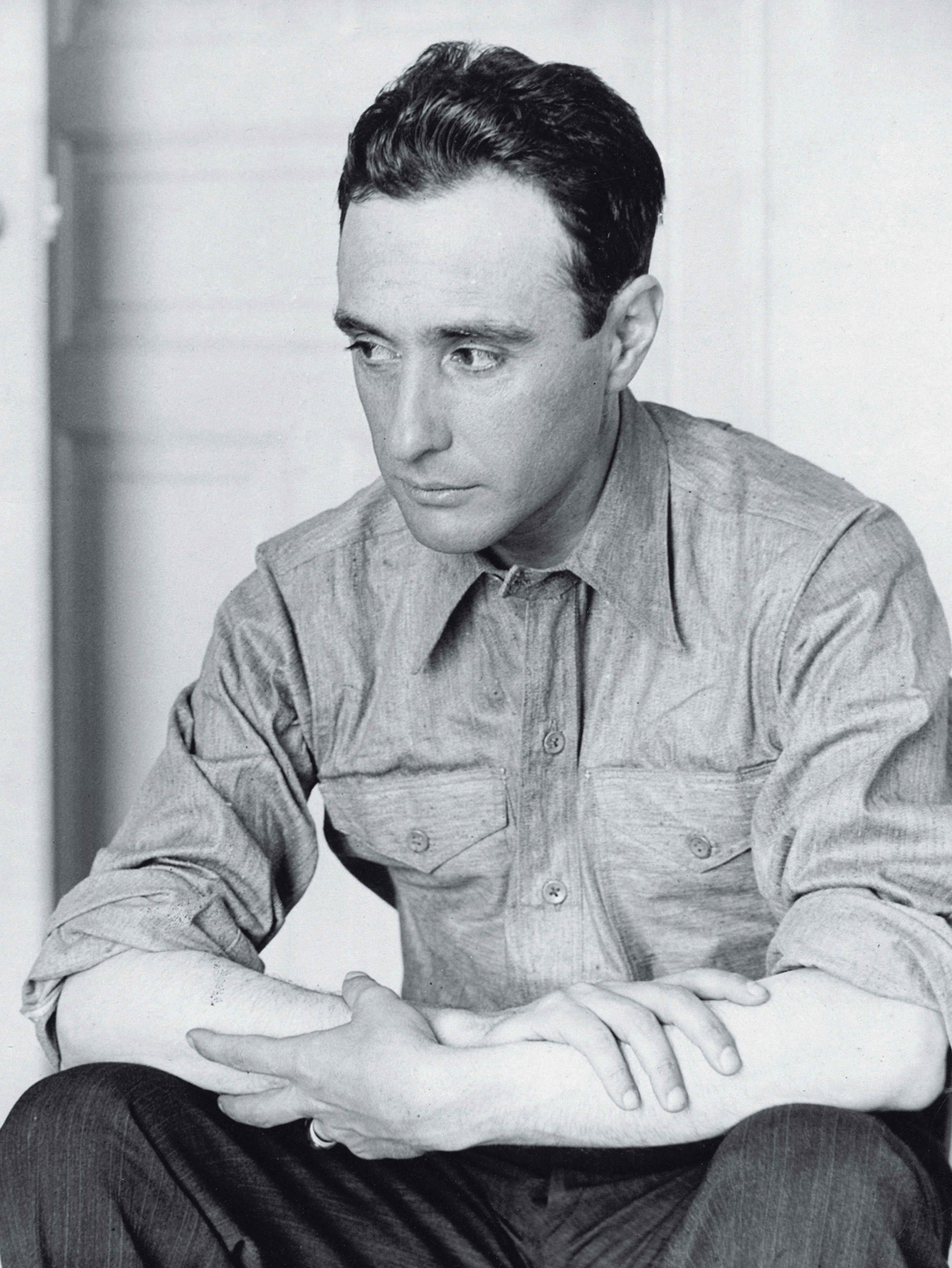 Manuel Rodríguez Lozano in a photograph by Tina Modotti, ca. 1928